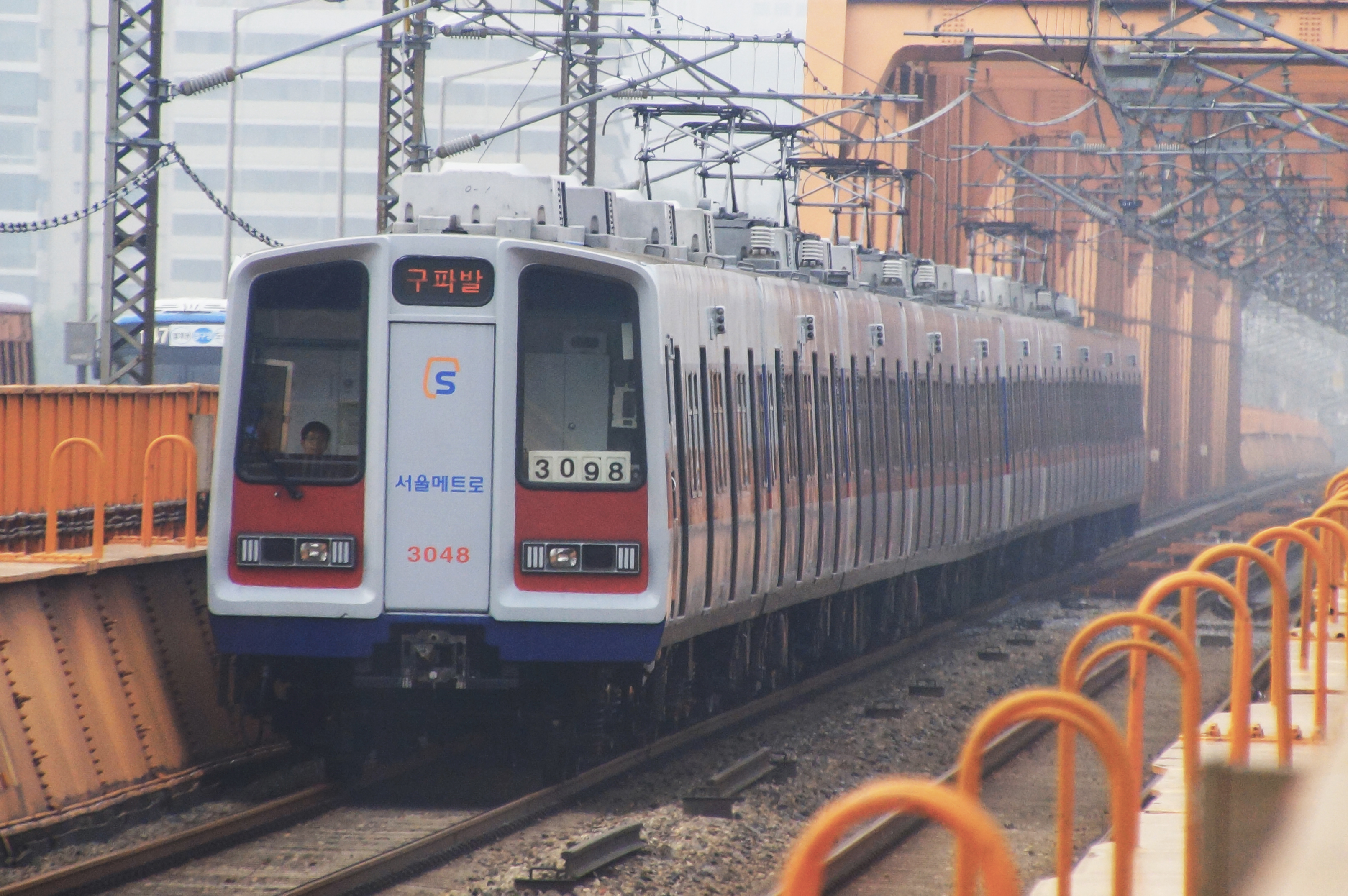 Ogeum-bound Seoul Metro Line 3 train of Daewoo Heavy Industries 3000-series (GEC Chopper controlled trainset 3x48) cars arriving at Oksu.